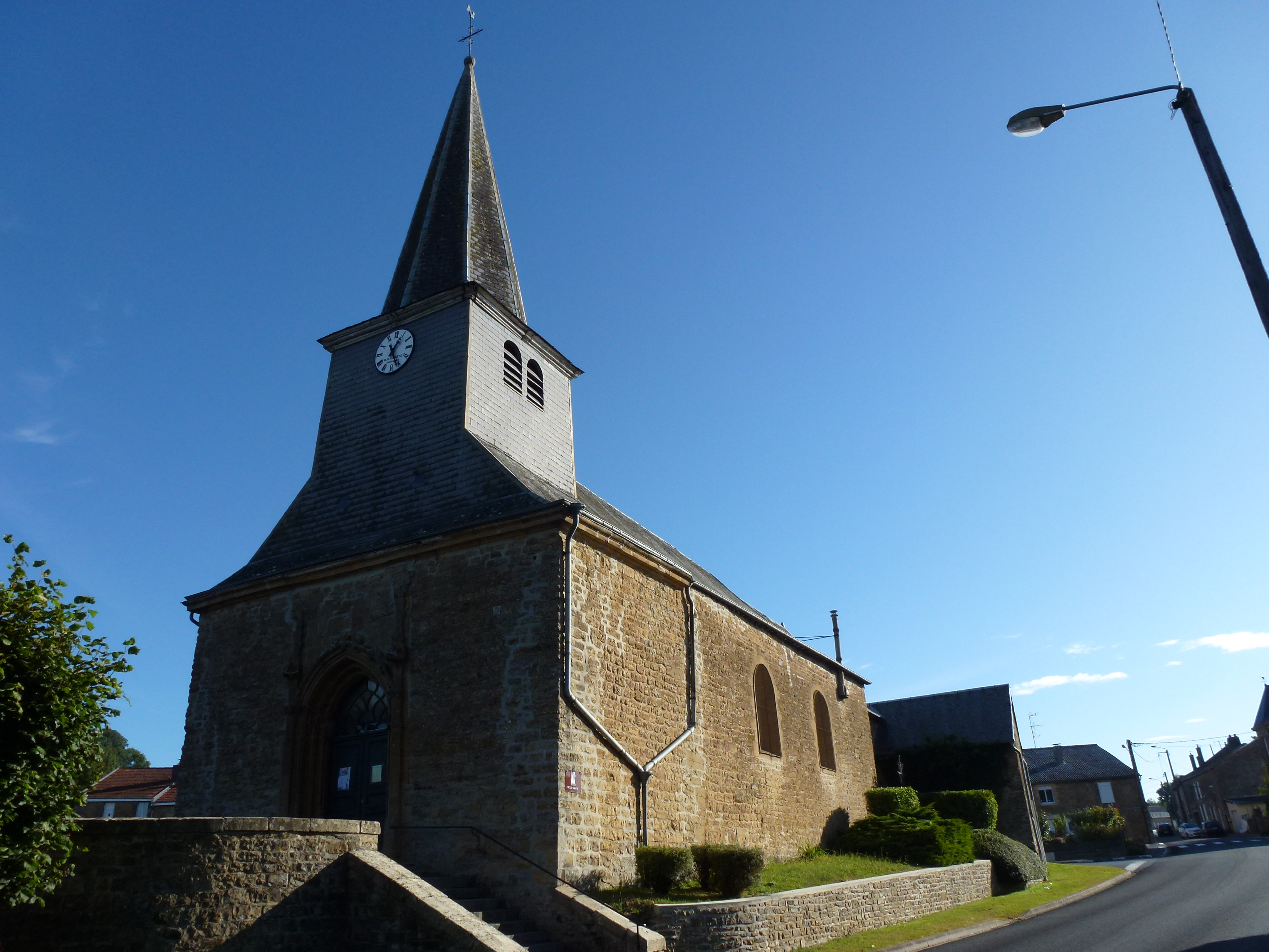 Lonny (Ardennes) église, façade